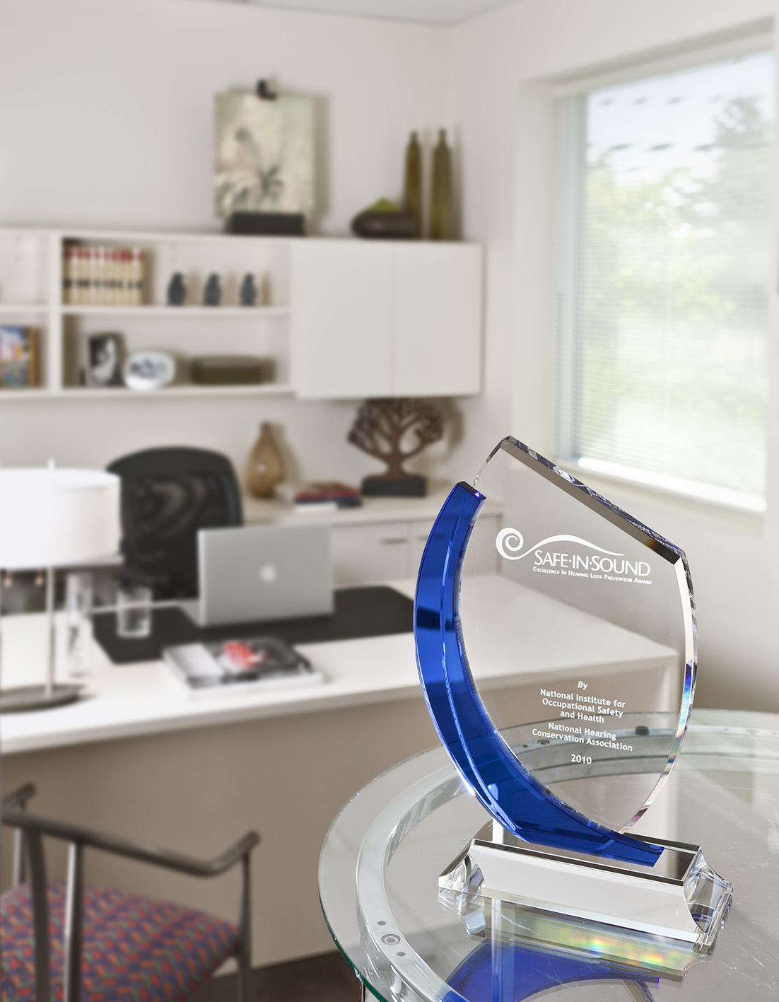 Photo of the award, in which the award recipients name gets engraved. Winners also receive support to attend the Annual Hearing Conservation Conference.